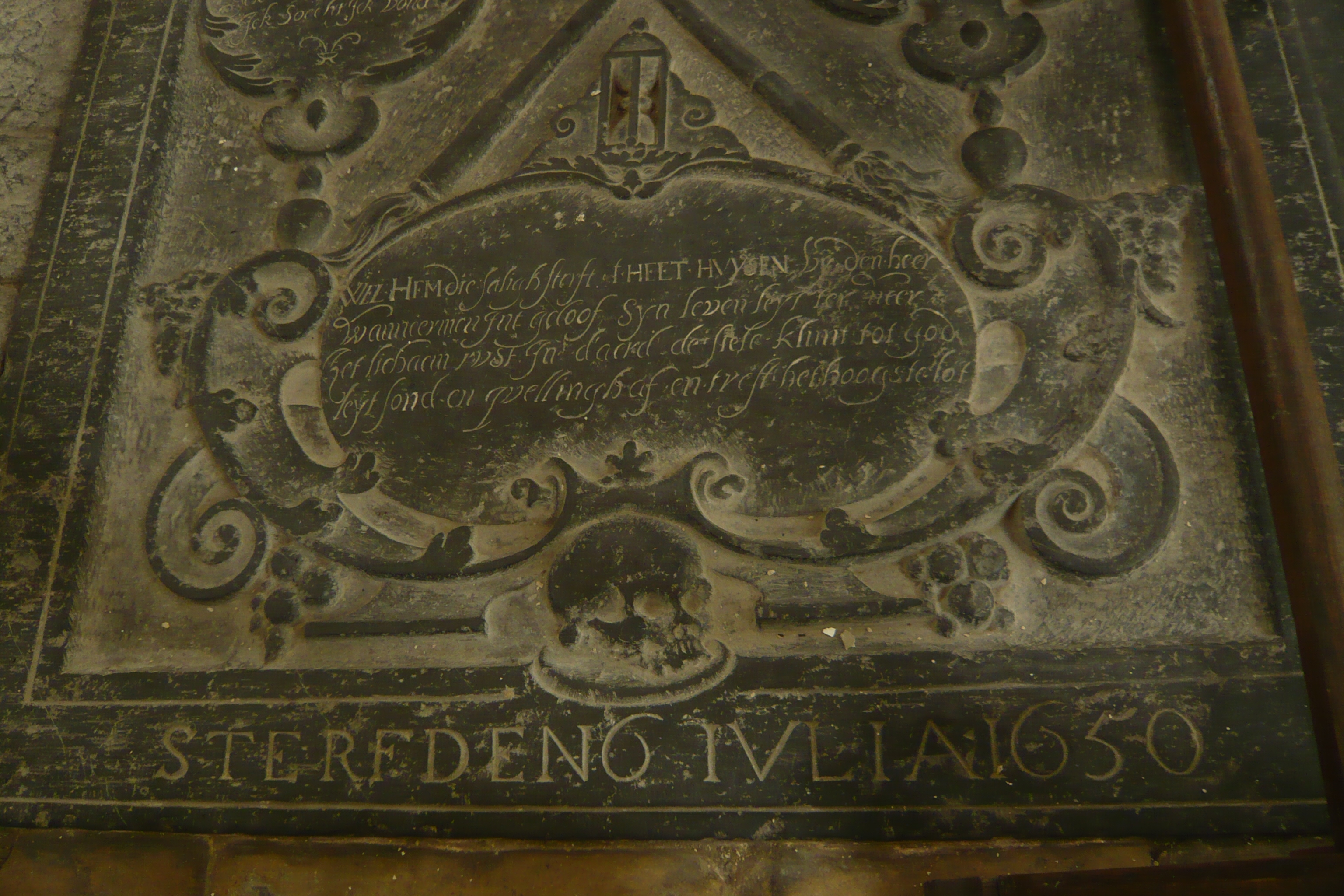 Gravestone detail with epitaph of Hofje-founder Willem van Heythuysen, located on the south side of the choir in the Grote Kerk, Haarlem.